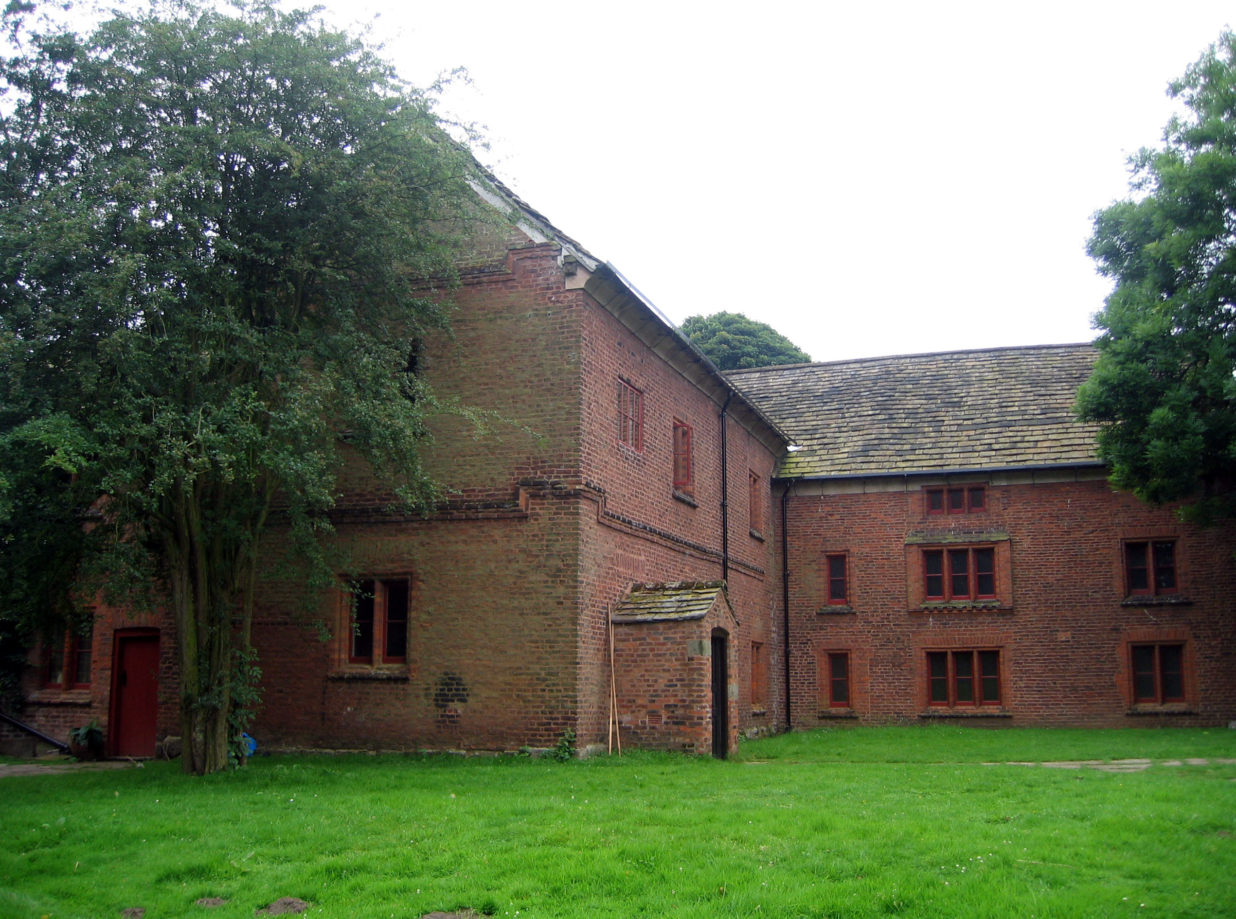 Photograph of the hall from the north